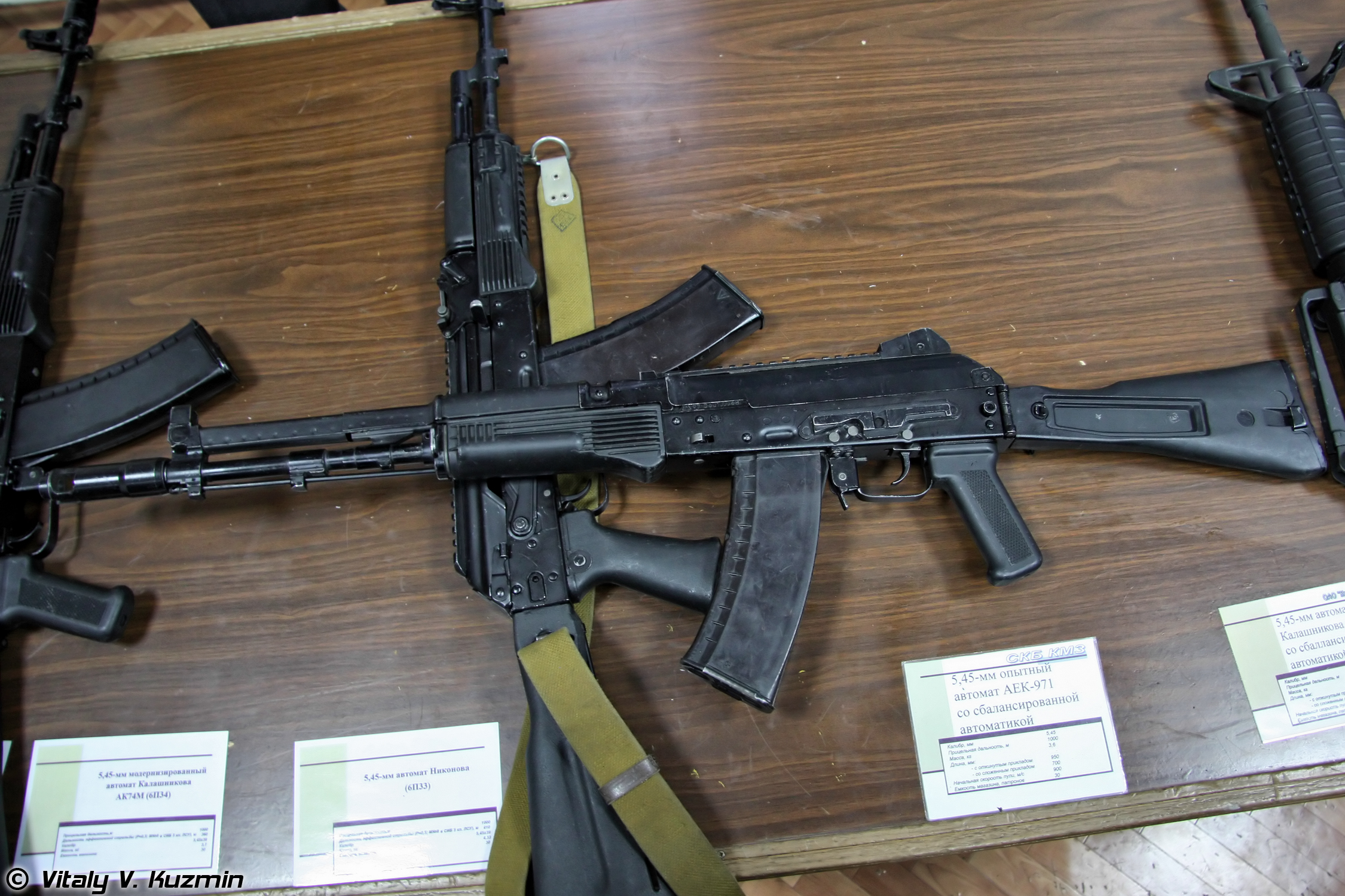 AK-107 with balanced operating system - TSNIITOCHMASH